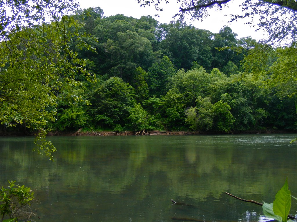 Atlanta, GA (Whitewater Creek)